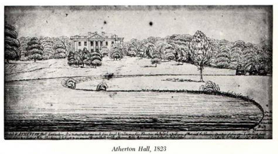 Depicted place: Atherton Hall, Leigh